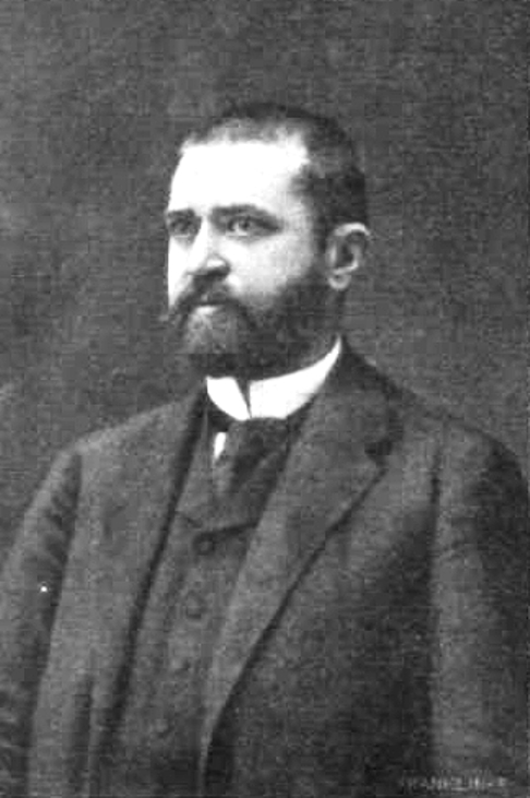 Photograph of János Teleszky